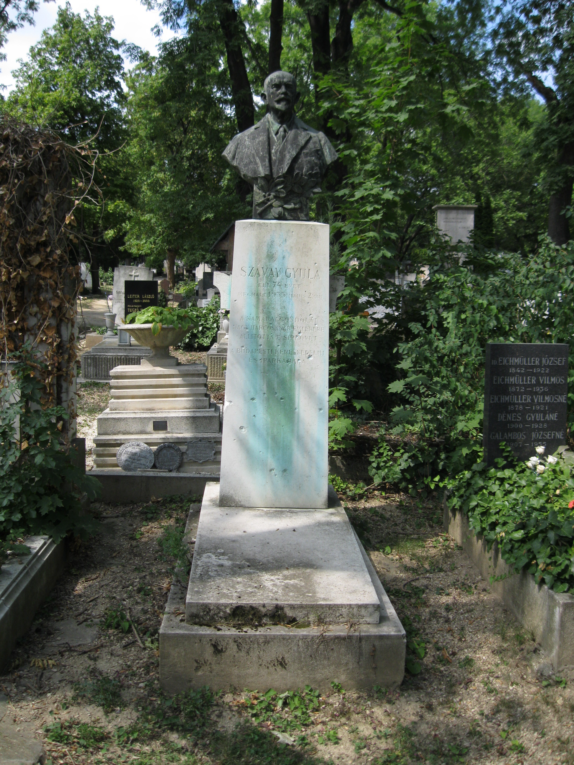 Tomb of Gyula Szávay in Farkasréti Cemetery [7/6-1-17]. Sculptor: János Istók.